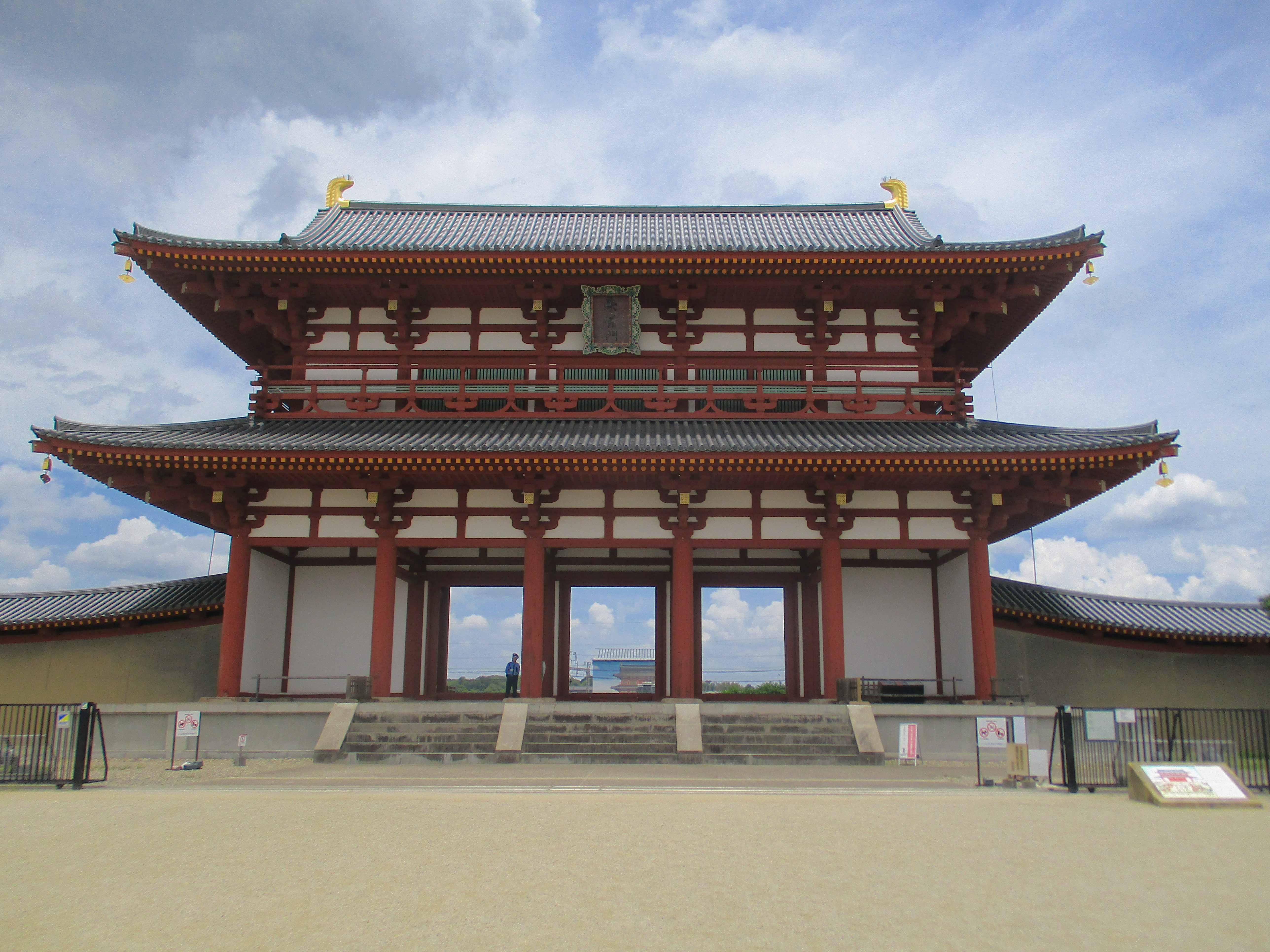 Suzakumon in Heijo Palace, June 4th 2019.